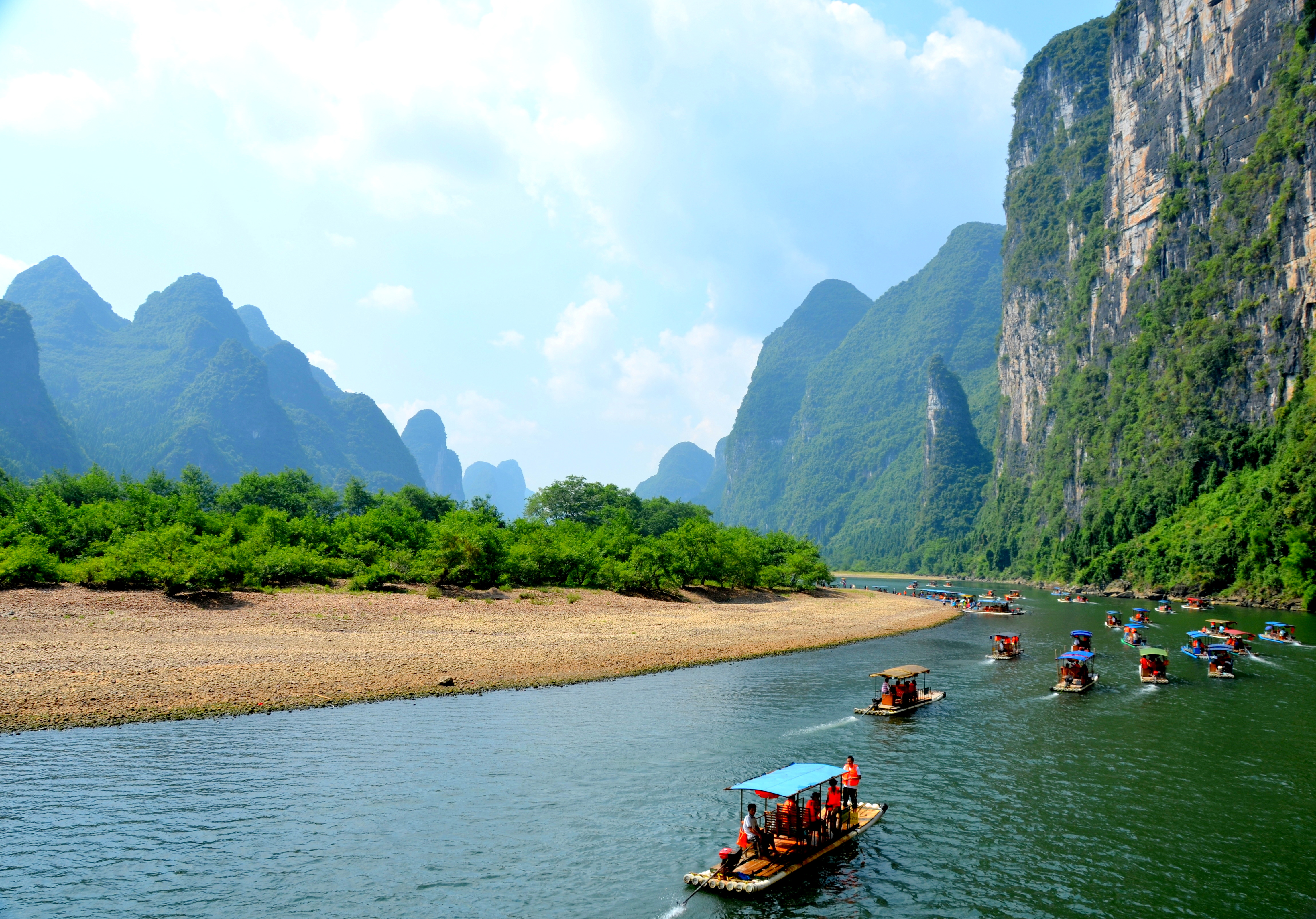 Boats on the Li River (Chinese: 漓江; pinyin: Lí Jiāng) or Lijiang